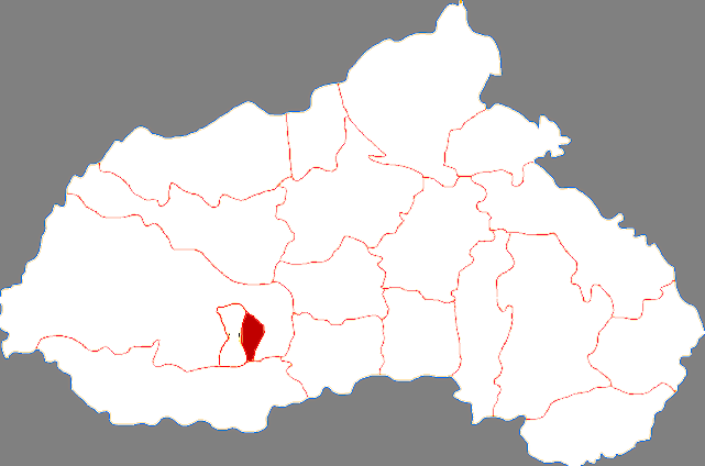 Location of Qiaodong district in Xingtai City, China